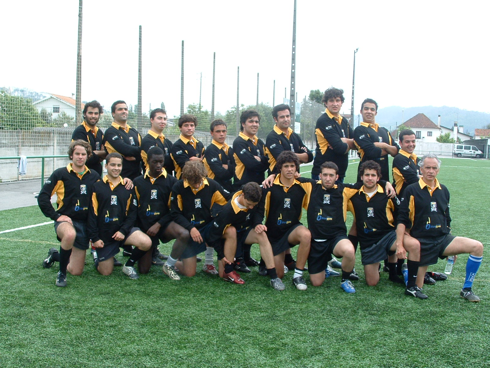 CRUP